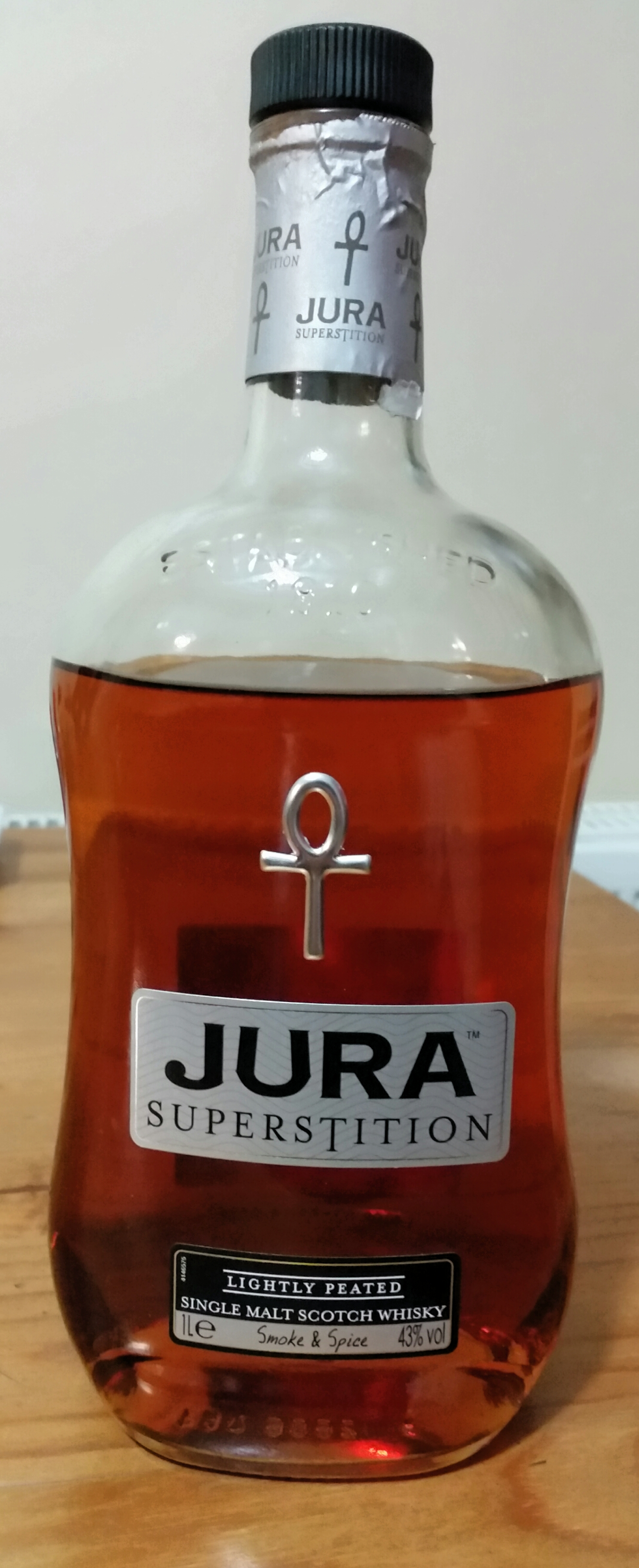 Jura Scotch single malt whisky